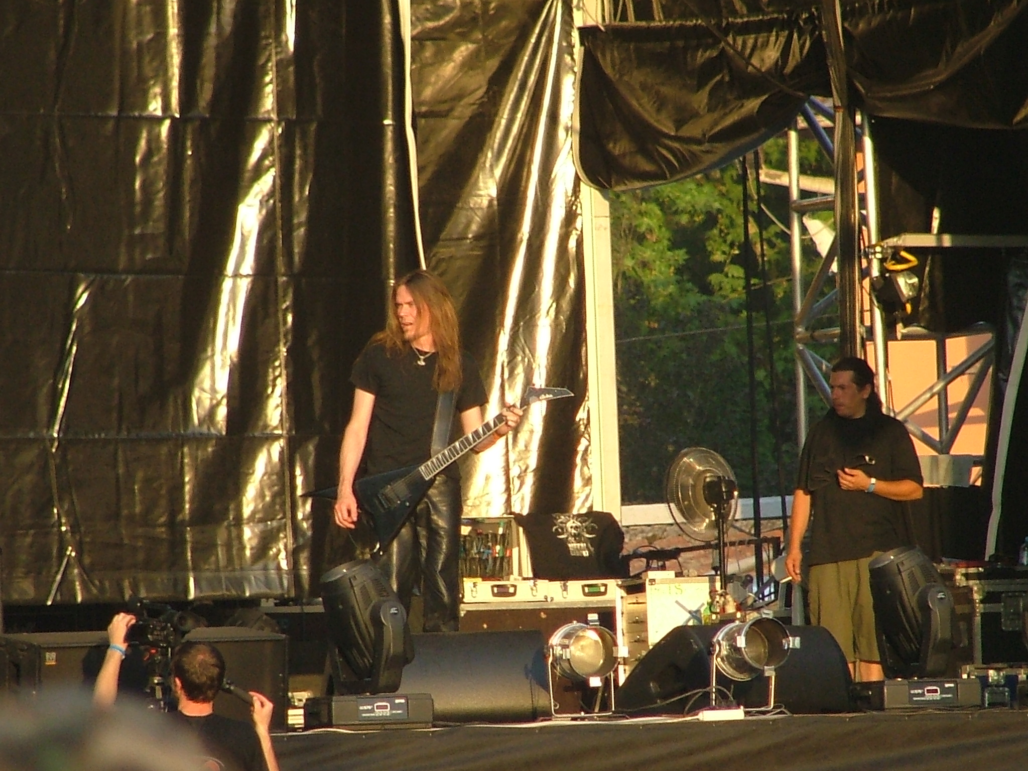 Swedish death metal band Unleashed at the Metalcamp in Tolmin